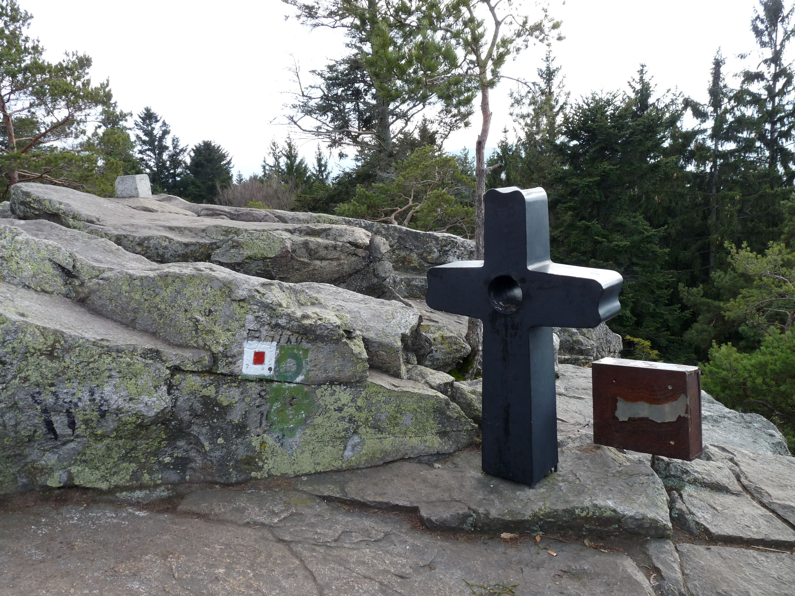 Cross on top of Kluk (741 m), a mountain in the Prachatická hornatina (Prachatice Highlands), part of the Šumavské podhůří (Šumava Foothills) in České Budějovice District, South Bohemia, Czech Republic, as seen from the road between Dubné and Lipí.